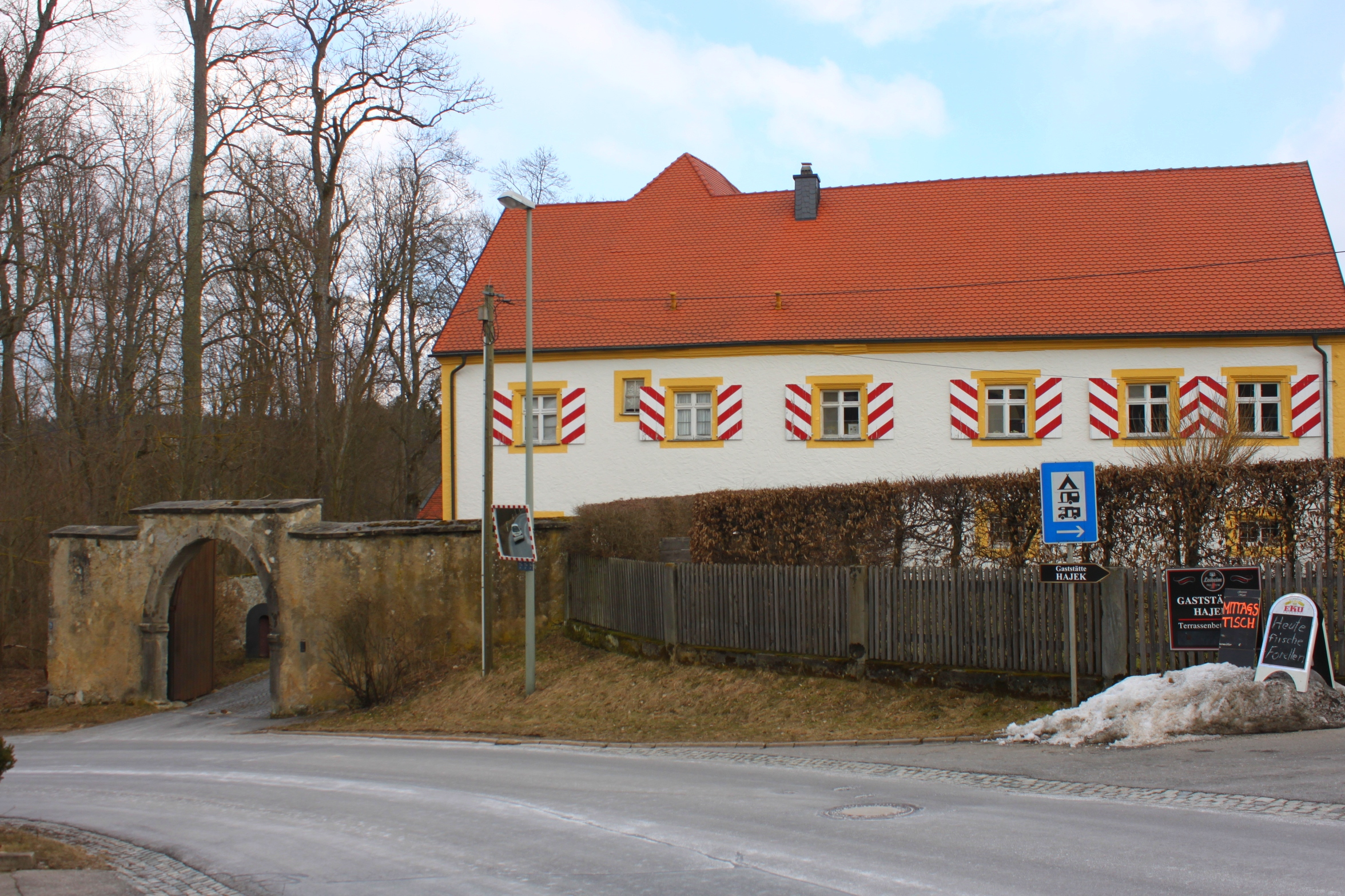 Castle of Kleinziegenfeld